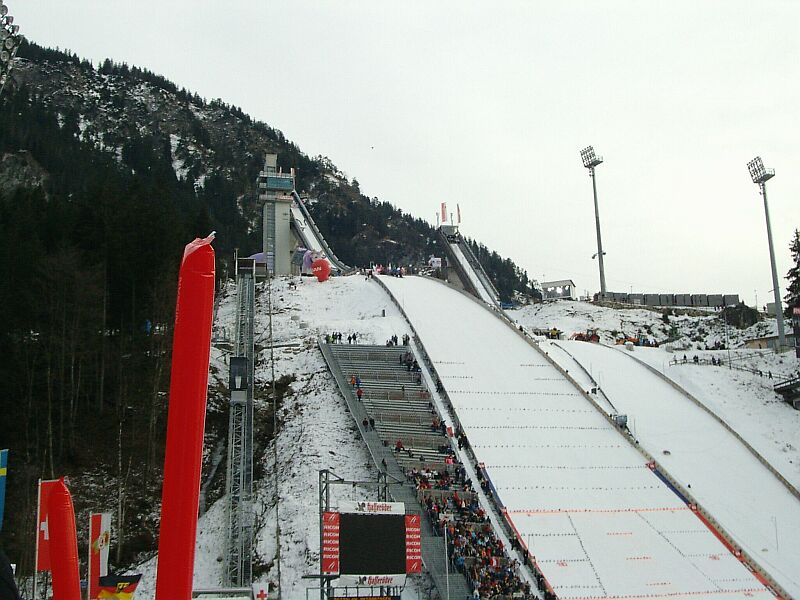 Skijumping in Oberstdorf, Germany. Four-Hills-Tournament 2006/07